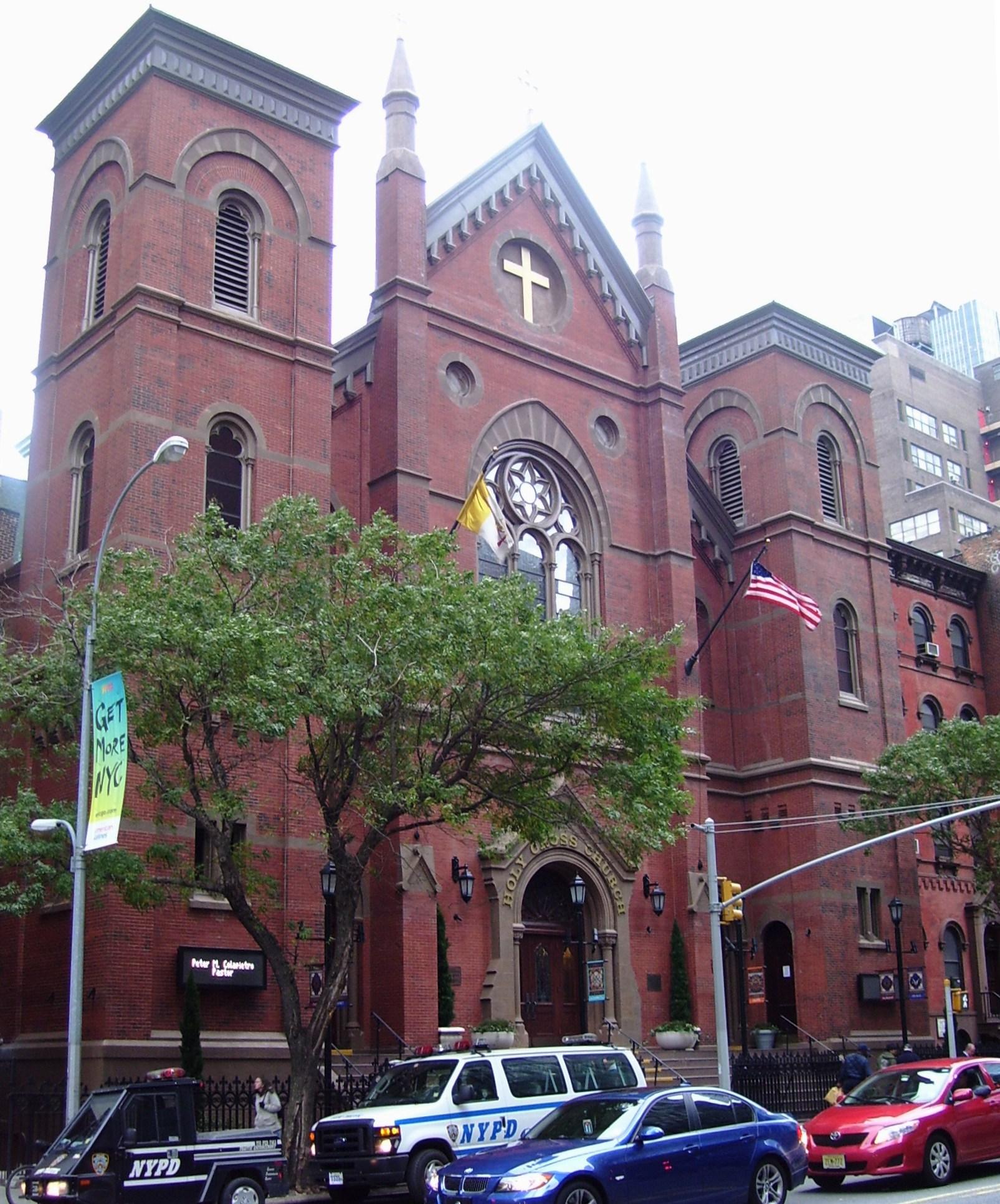 The Roman Catholic Church of the Holy Cross on 42nd Street between 8th and 9th Avenues in the Theatre District of Midtown Manhattan, New York City. Built in 1870, designed by Henry Engelbert. The rectory is on the right. This was the parish church of Father Patrick Duffy, for whom Dauffy Square (the northern part of the Times Square intersection) is named.